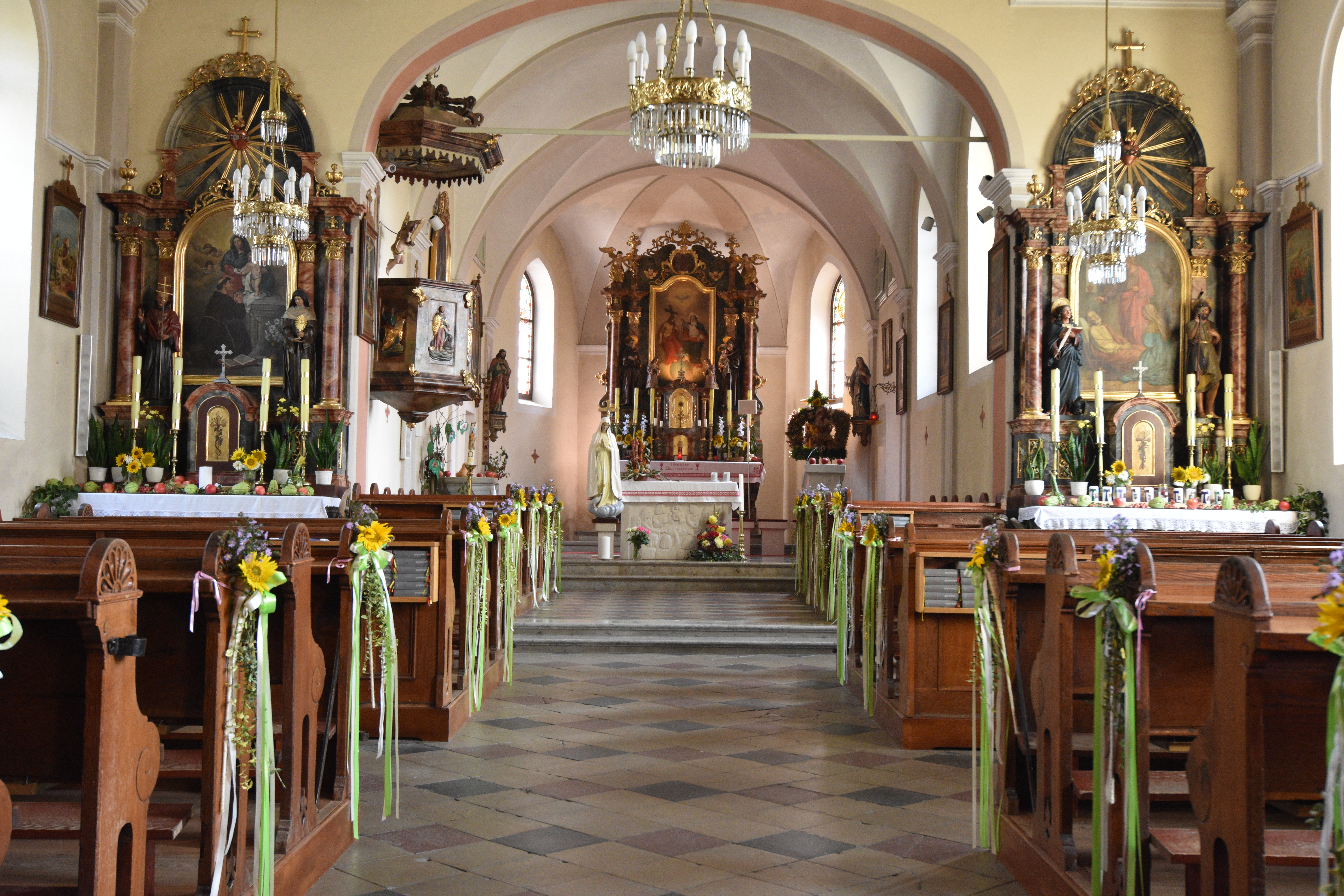 Pfarrkirche Tieschen - Interior